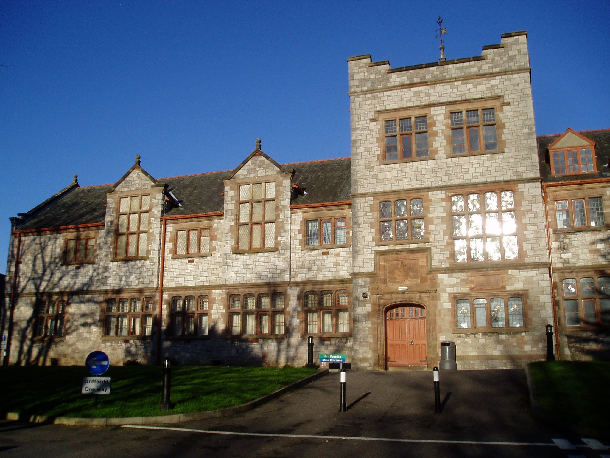 Former Ffriddoedd site of Friars School, Bangor, now part of Coleg Menai